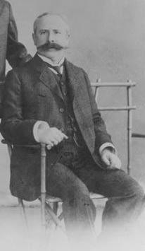 Eugen Rehfisch (1864-1937), circa 1900